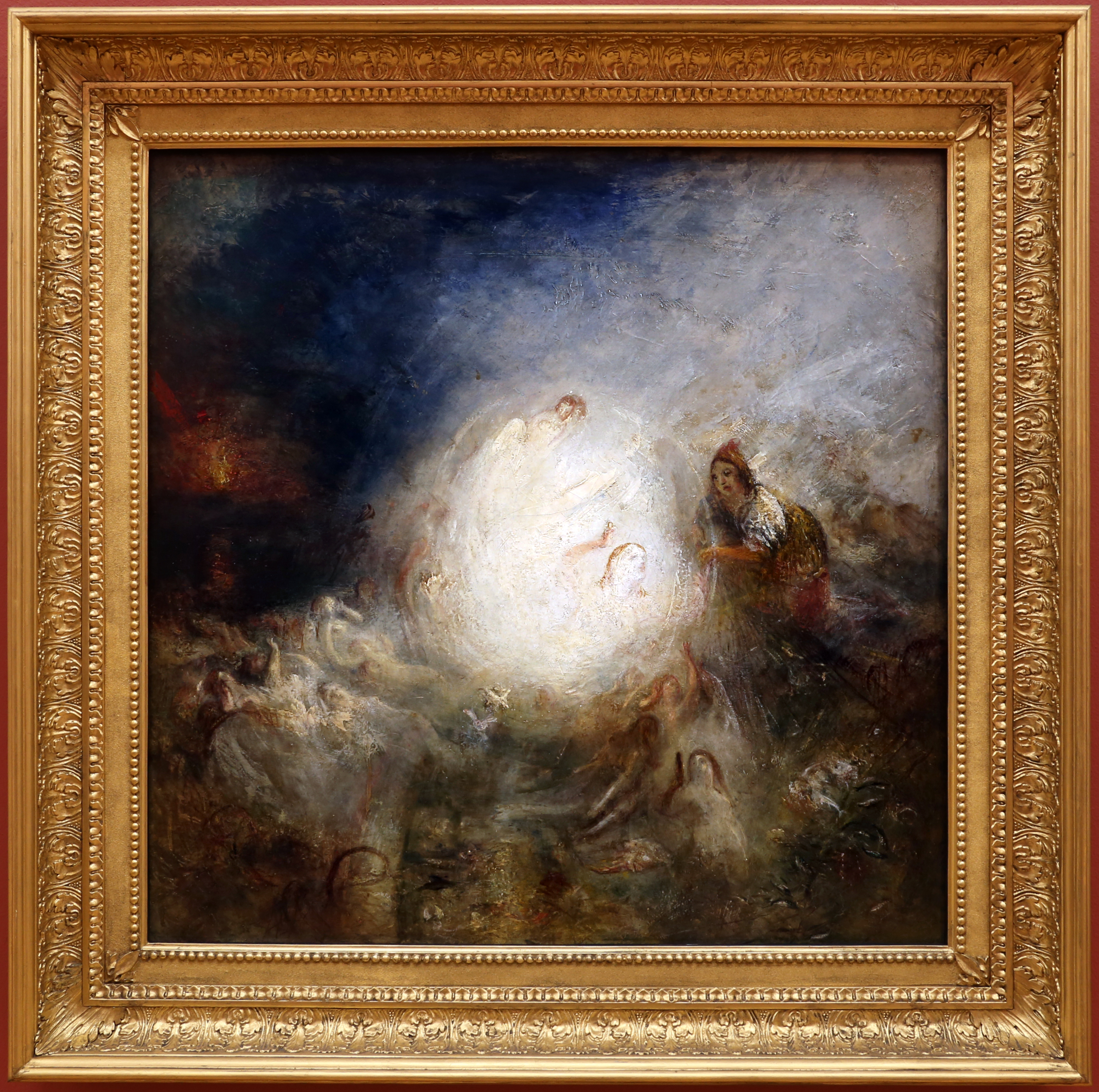 Paintings by Joseph Mallord William Turner in Tate Britain